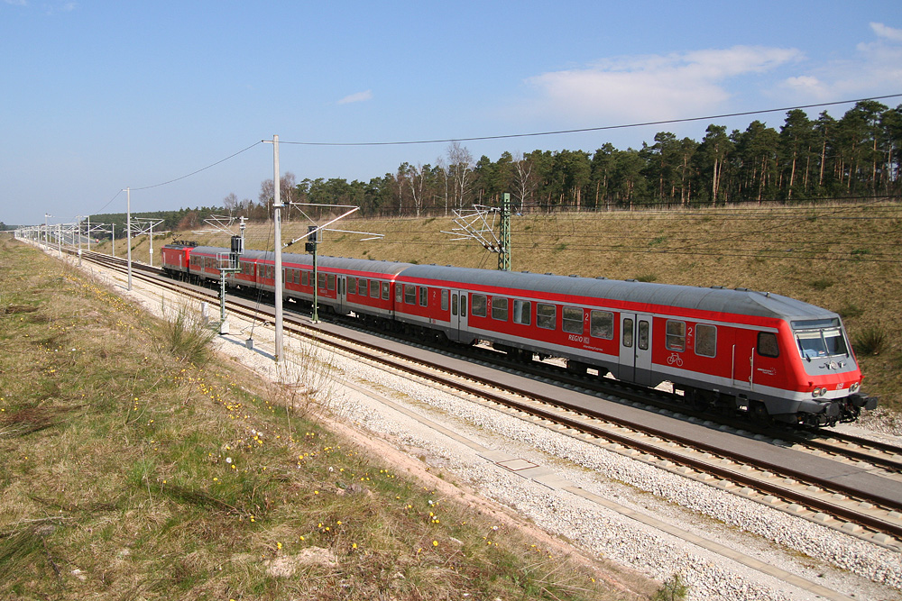 An Allersberg-Express, a regional shuttle between the train stations of Nurenberg und Allersberg, approaches the railway station of Allersberg.